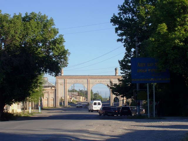 The Main Gate entrance of Sayram, Kazakhstan.